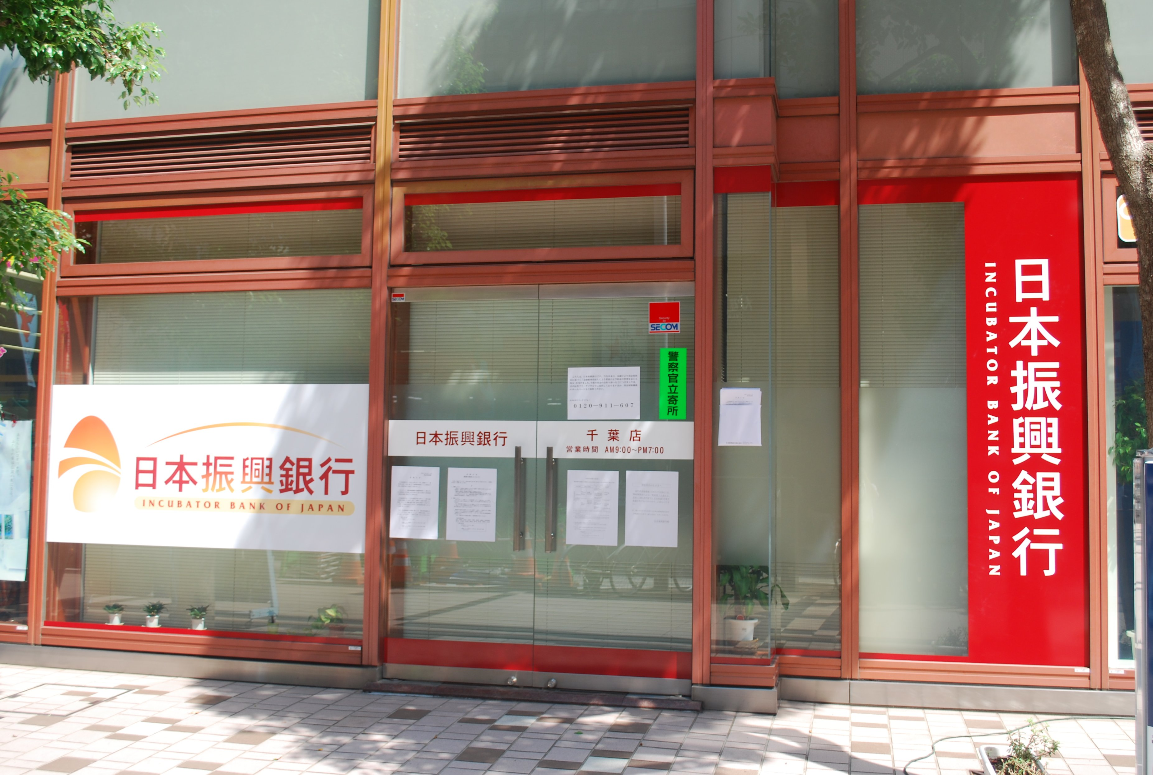 Chiba Branch,Incubator Bank of Japan,Chiba-city,Japan. The branch of the next day of the bankruptcy. Paper of the news is put.